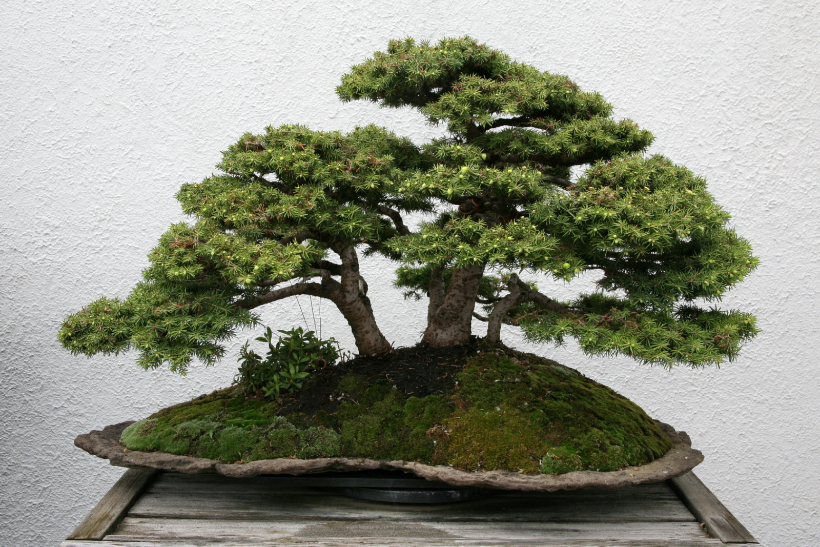 In training since 1956